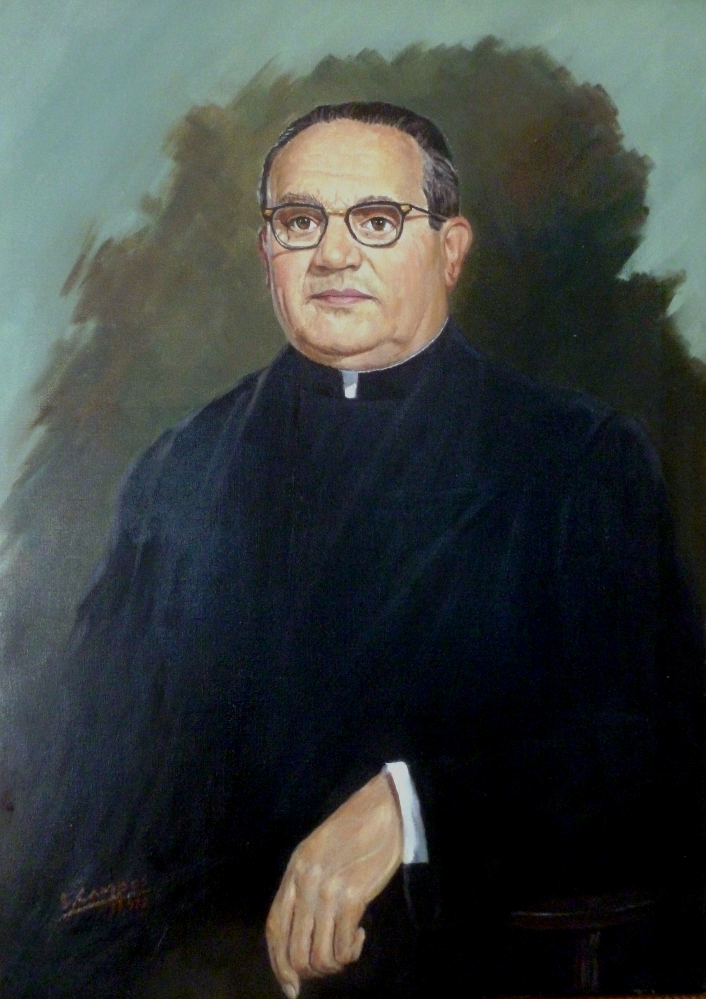 Portrait of Portuguese Canon Manuel Rodrigues de Azevedo